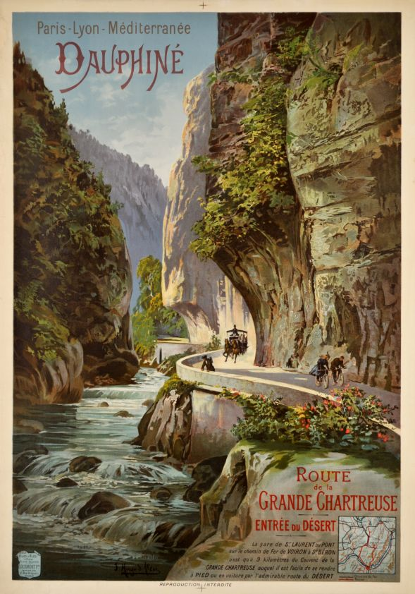 Poster of the PLM railway company, France: Dauphiné, route de la Grande Chartreuse, entrée du désert.